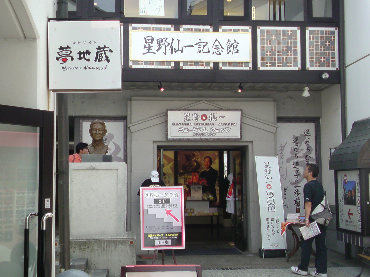 Entrance of the Senichi Hoshino Memorial Hall, Kurashiki city, Okayama prefecture, Japan